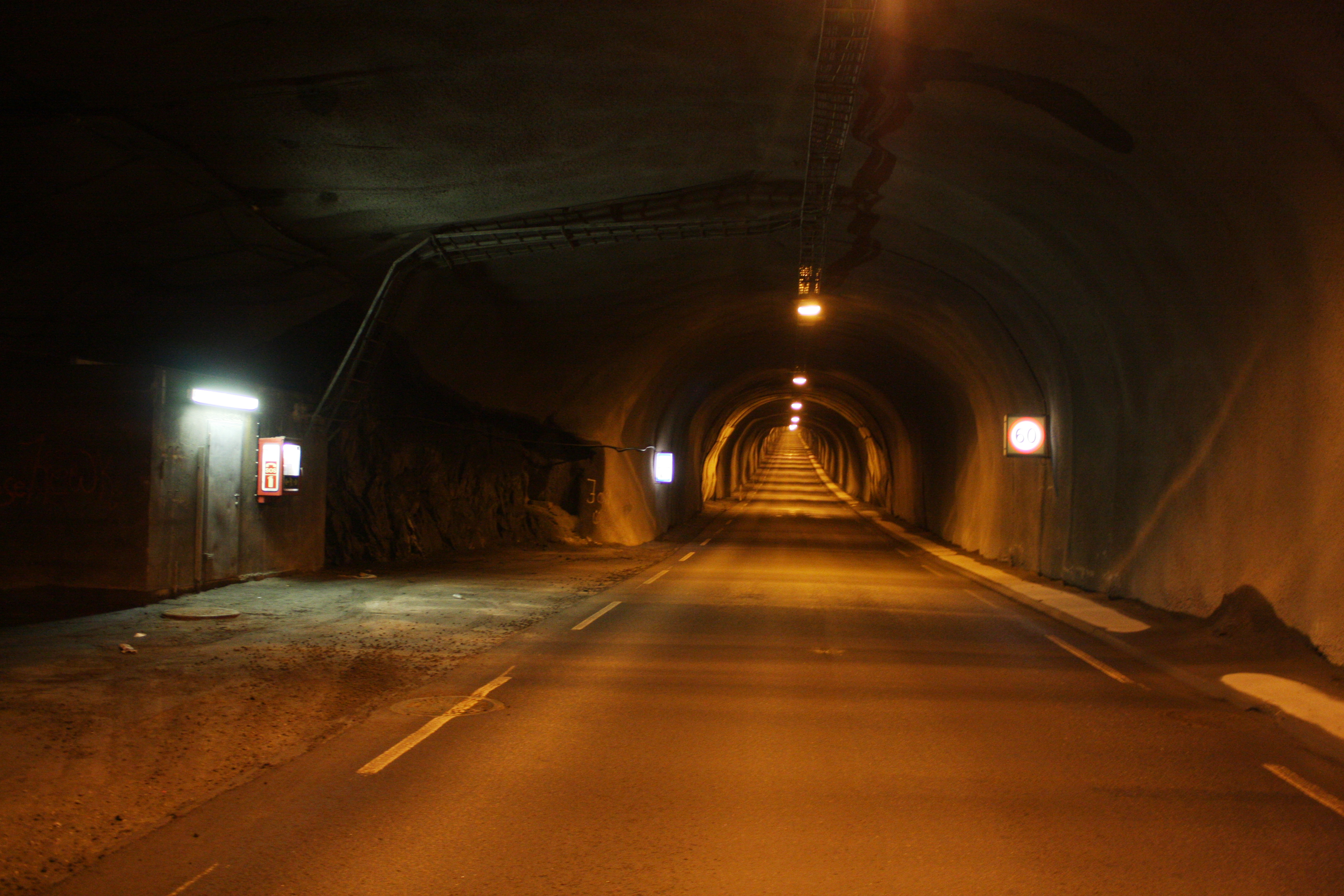 The lowest elevation inside the undersea road tunnel Kvalsundtunnelen on riksvei 863 (Norwegian national road 863), Norway. The picture is taken towards the tunnel entrace on the island Ringvassøya.